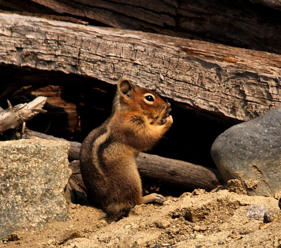 A Cascade golden-mantled ground squirrel eating in the Western Washington Mountains, Mount Rainier, Washington 2012